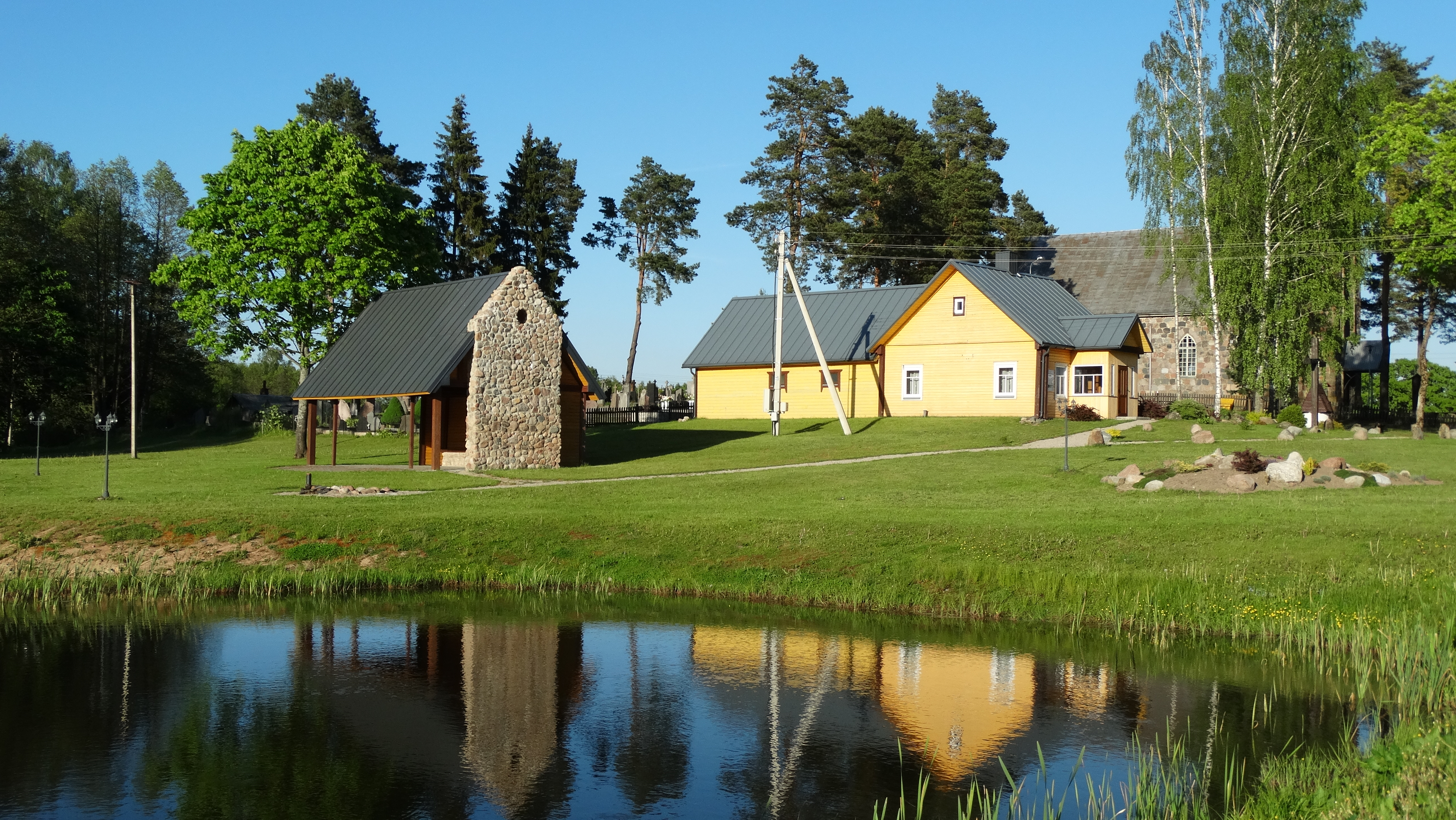 Stirniai, Molėtai district, Lithuania